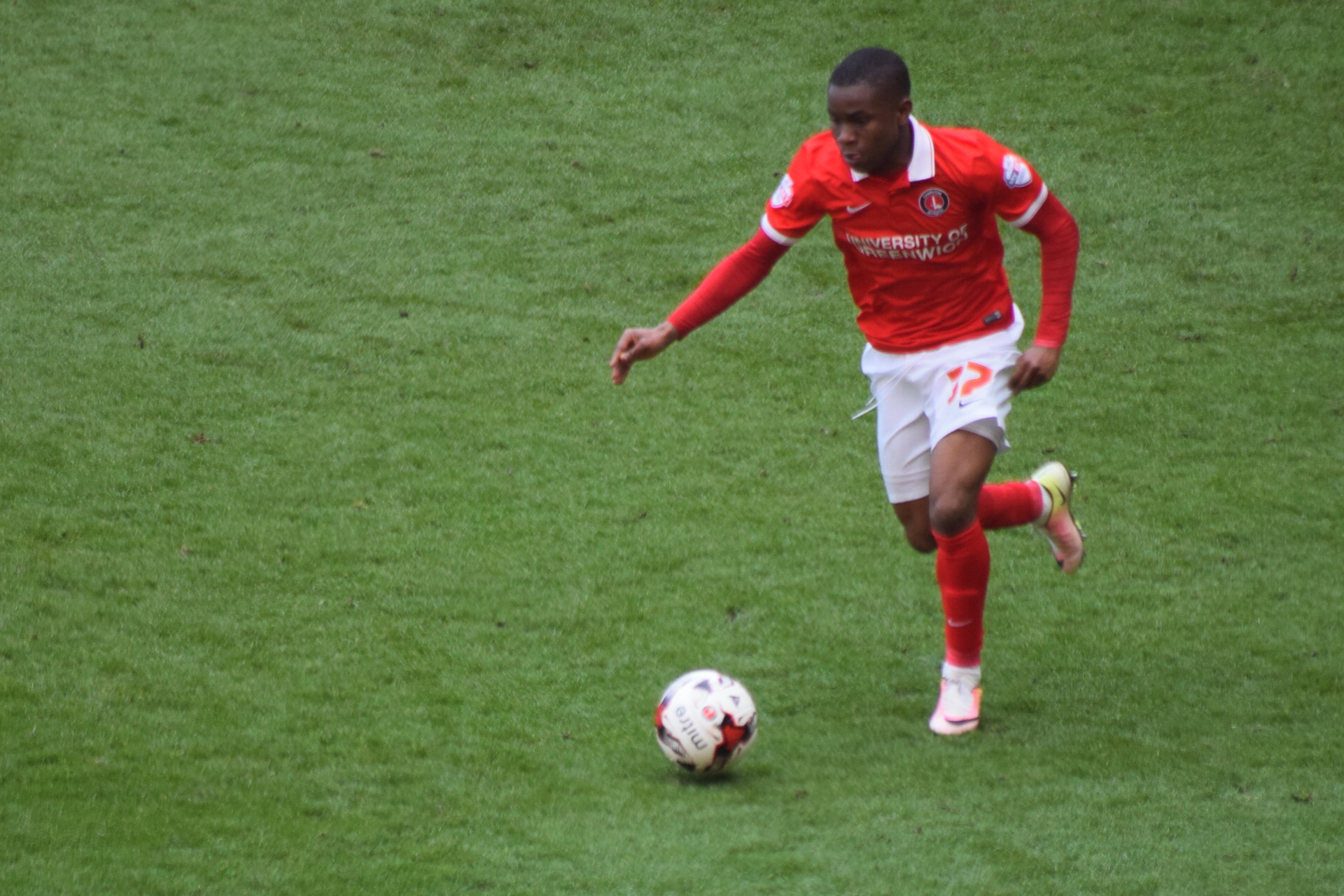 Ademola Lookman, Charlton